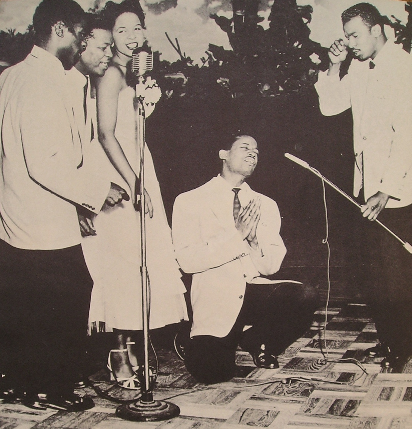 The music group "The Platters" performing.